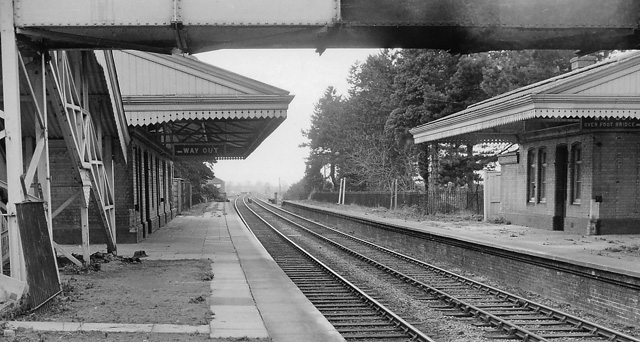 Broadway Station View SW, towards Cheltenham; ex-GWR Birmingham - Stratford-on-Avon - Honeybourne - Cheltenham - Gloucester - Bristol main line. Station closed to passengers 7/3/60, goods 1/6/64. Line finally closed completely on 25/10/76, but is partially restored by the heritage Gloucestershire & Warwickshire Railway, who plan to reopen back to Broadway from Toddington